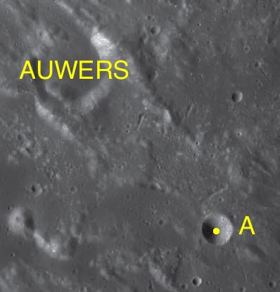 Part of the chart LAC-60 used for the presentation.